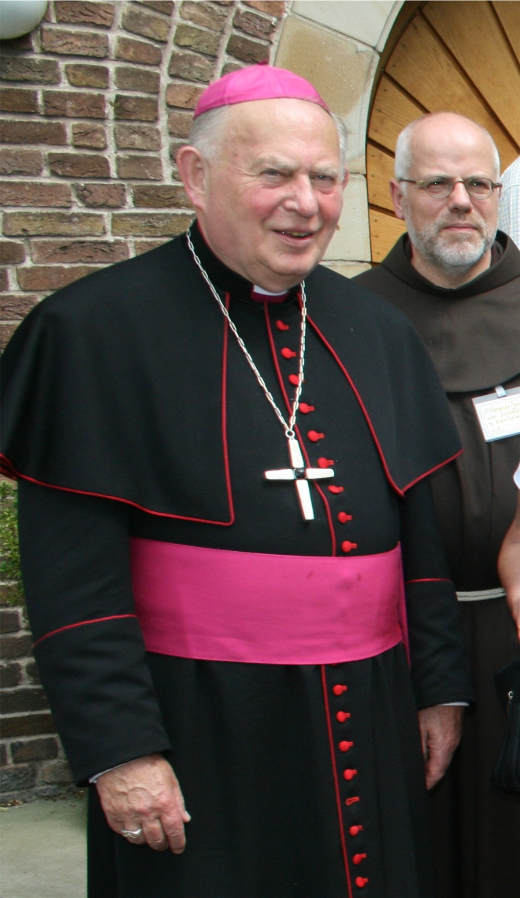 Auxiliary Bishop emeritus Friedrich Osterman of the Diocese of Münster